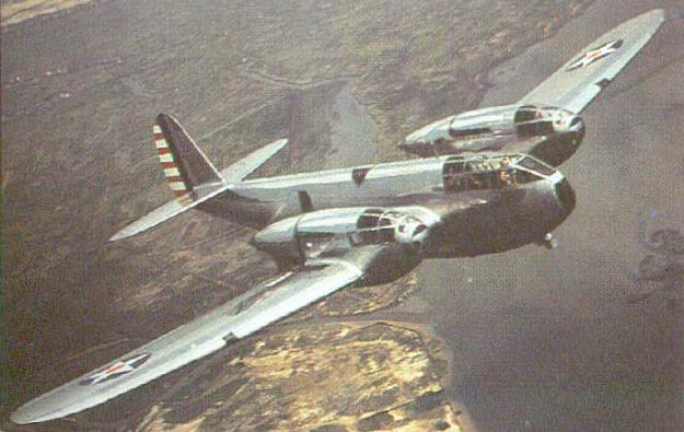 Image taken by US Government employee; original image found at